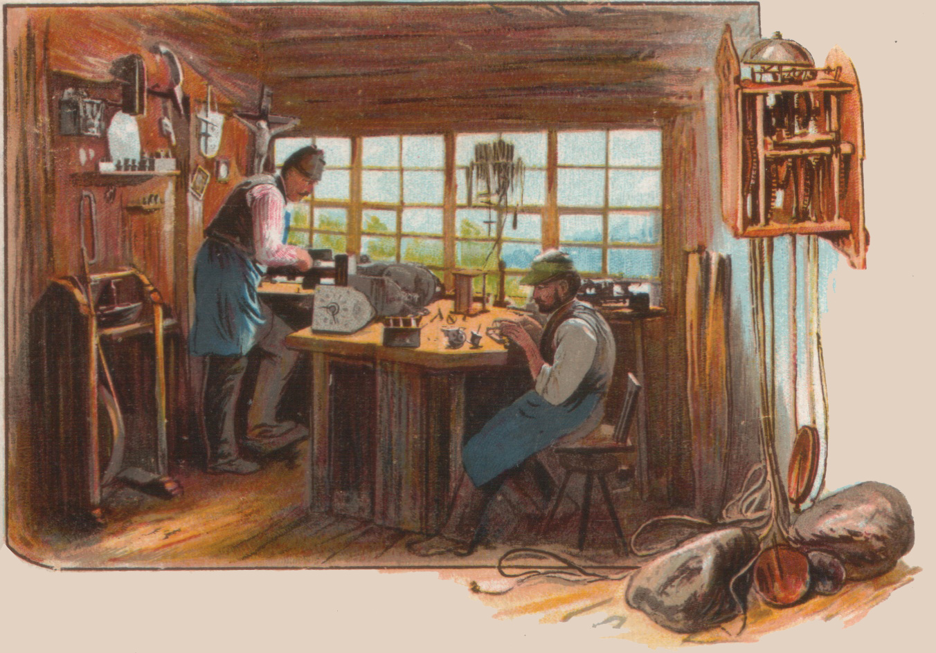 Postcard: home effort and home industry in the Black Forest - III. Clock making